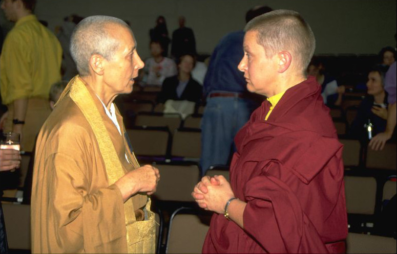 Gesshin Myoko Prabhasa Dharma in conversation with Pema Chödrön, Berlin 1992